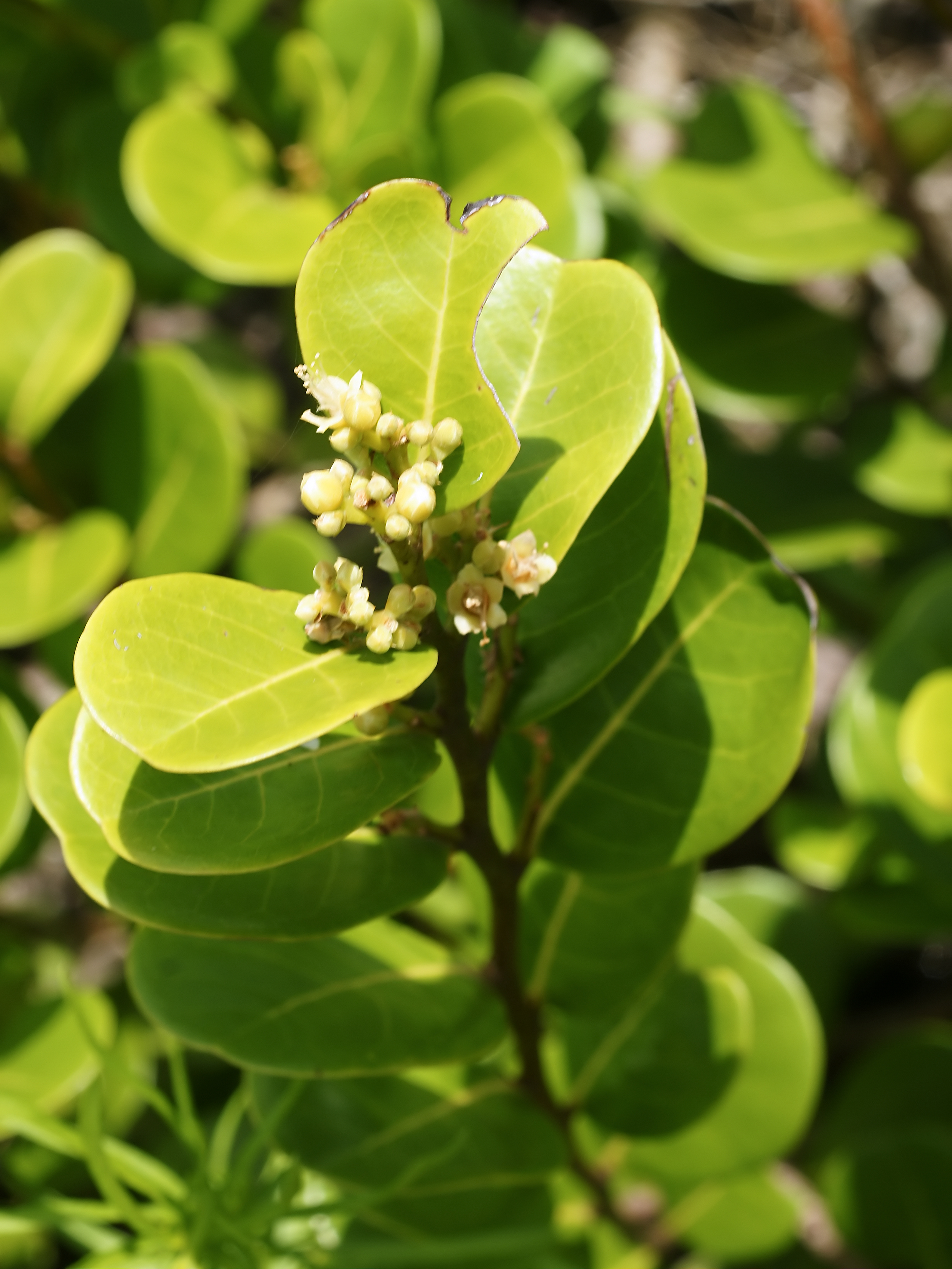 Cocoplum near Cahuita, Costa Rica